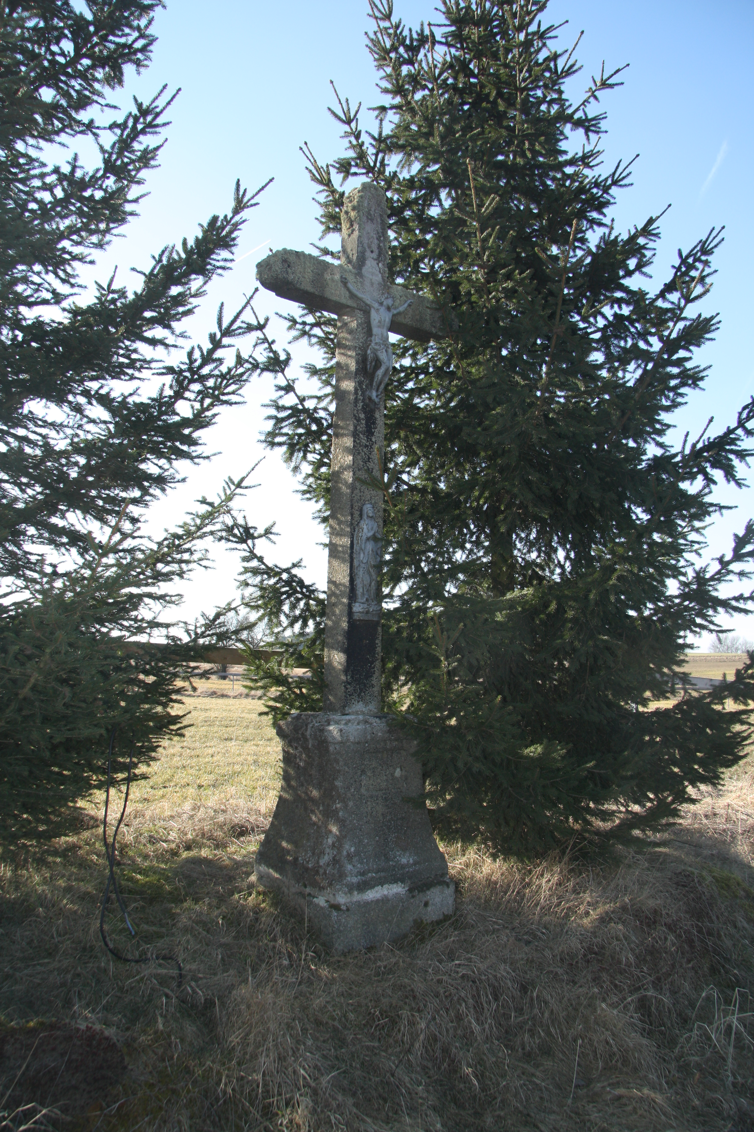 Wayside cross near Horní Heřmanice, Třebíč District.